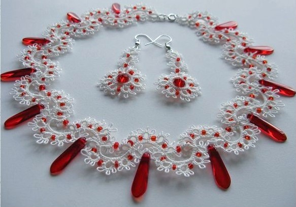 Tatting necklace